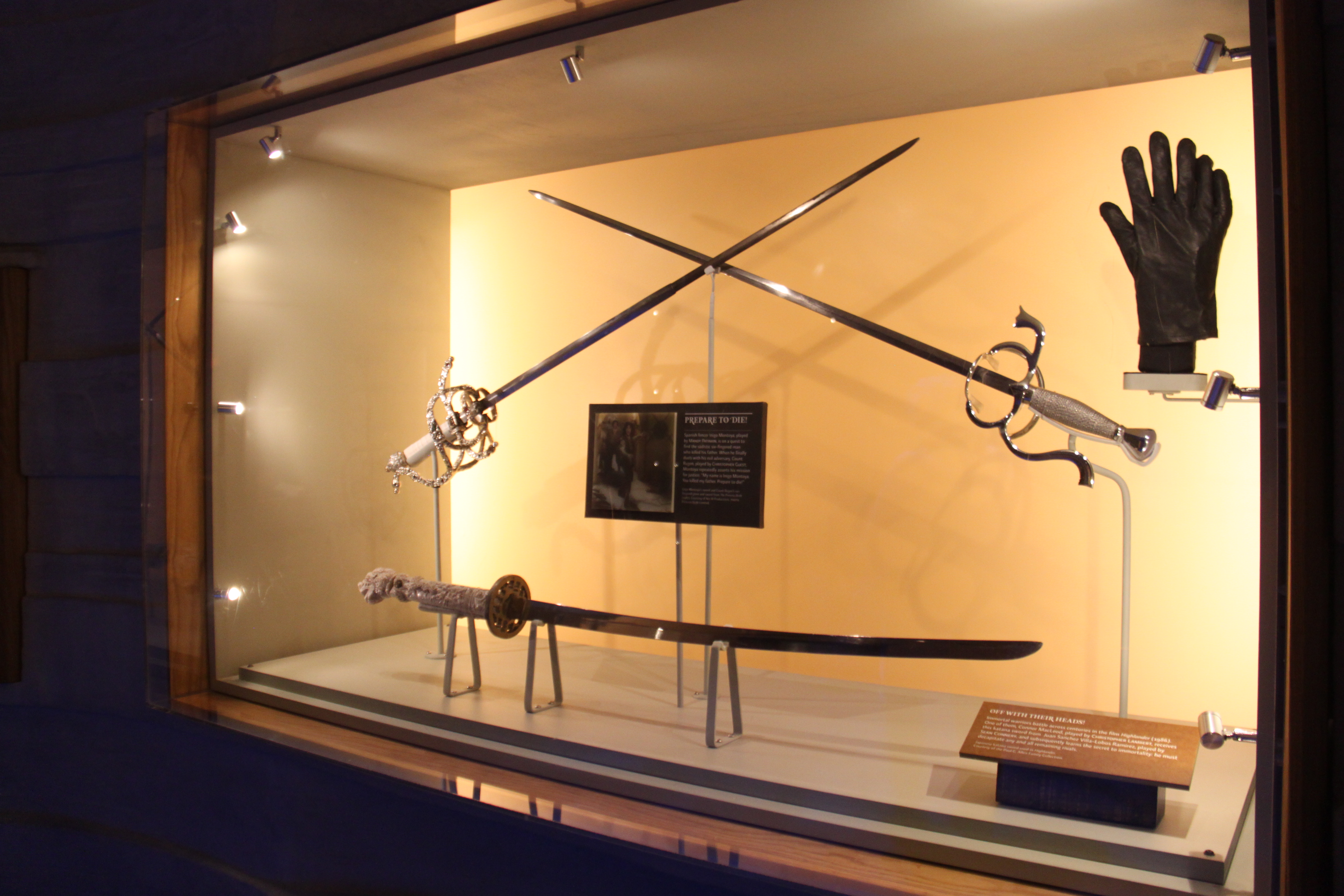 displayed at Fantasy: Worlds of Myth and Magic, Experience Music Project/Science Fiction Hall of Fame, Seattle.